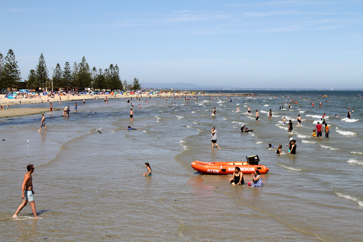 Looking east from the pier across Altona Beach on a warm (31°) summer's Sunday afternoon, Altona, Victoria, Australia.